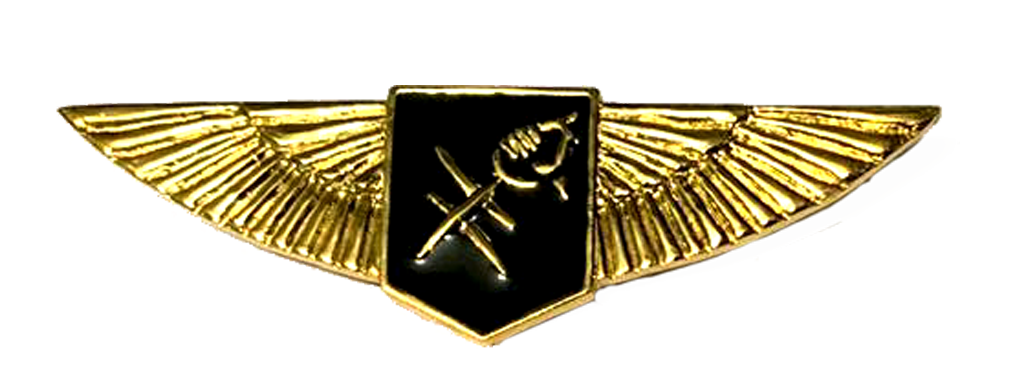 Special Group Maverick Dagger Badge.Note: The only way to prove (for WP:V purpose) that this is the authentic badge of the ultra-secretive Special Group is by examining this image of late Major Udai Singh, who is the only confirmed ([1][2][3][4]) member of the SG. He can be seen wearing the badge.